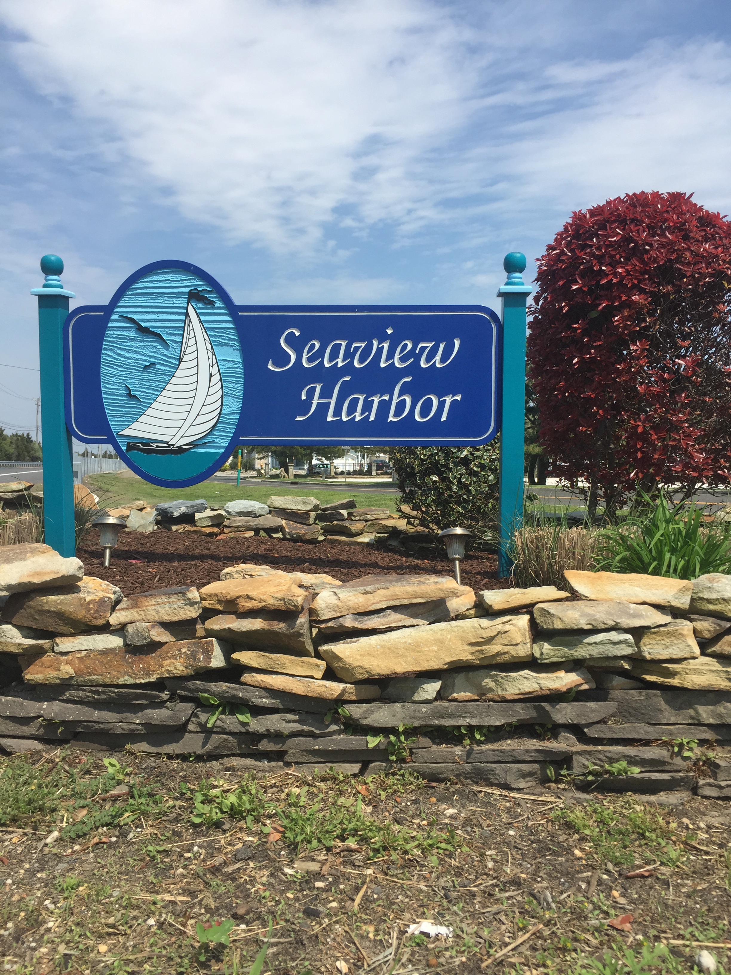 The sign for Seaview Harbor, New Jersey, a small unincorporated community in Egg Harbor Township that is adjacent to the Great Egg Harbor Bay. This sign is near the corner of Hospitality Drive and Somers Point-Longport Blvd (New Jersey Route 152).